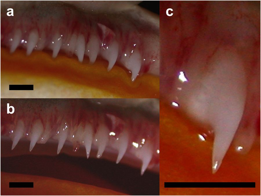 Teeth of Ceratophrys cranwelli. As with almost all other extant frogs bearing teeth, Ceratophrys has teeth only on the upper jaw. Unusual among frogs, the teeth of Ceratophrys exhibit a derived non-pedicellate morphology and have sharp recurved tips situated upon robust, labiolingually expanded bases. (a) view of teeth with jaws closed; (b) view of teeth with mouth slightly open; (c) close-up of single tooth. Scale bars = 1 mm.